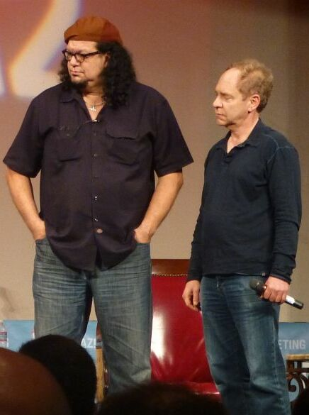 Penn & Teller on stage at The Amazing Meeting 2012 (TAM-2012) during the Saturday Keynote Presentation: "Penn & Teller - 38 Years of Magic & BS".